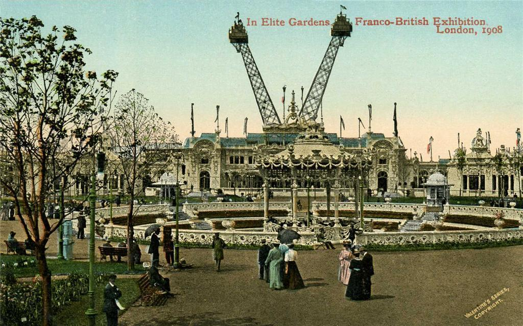 In Elite Gardens, Franco-British Exhibition, London, England